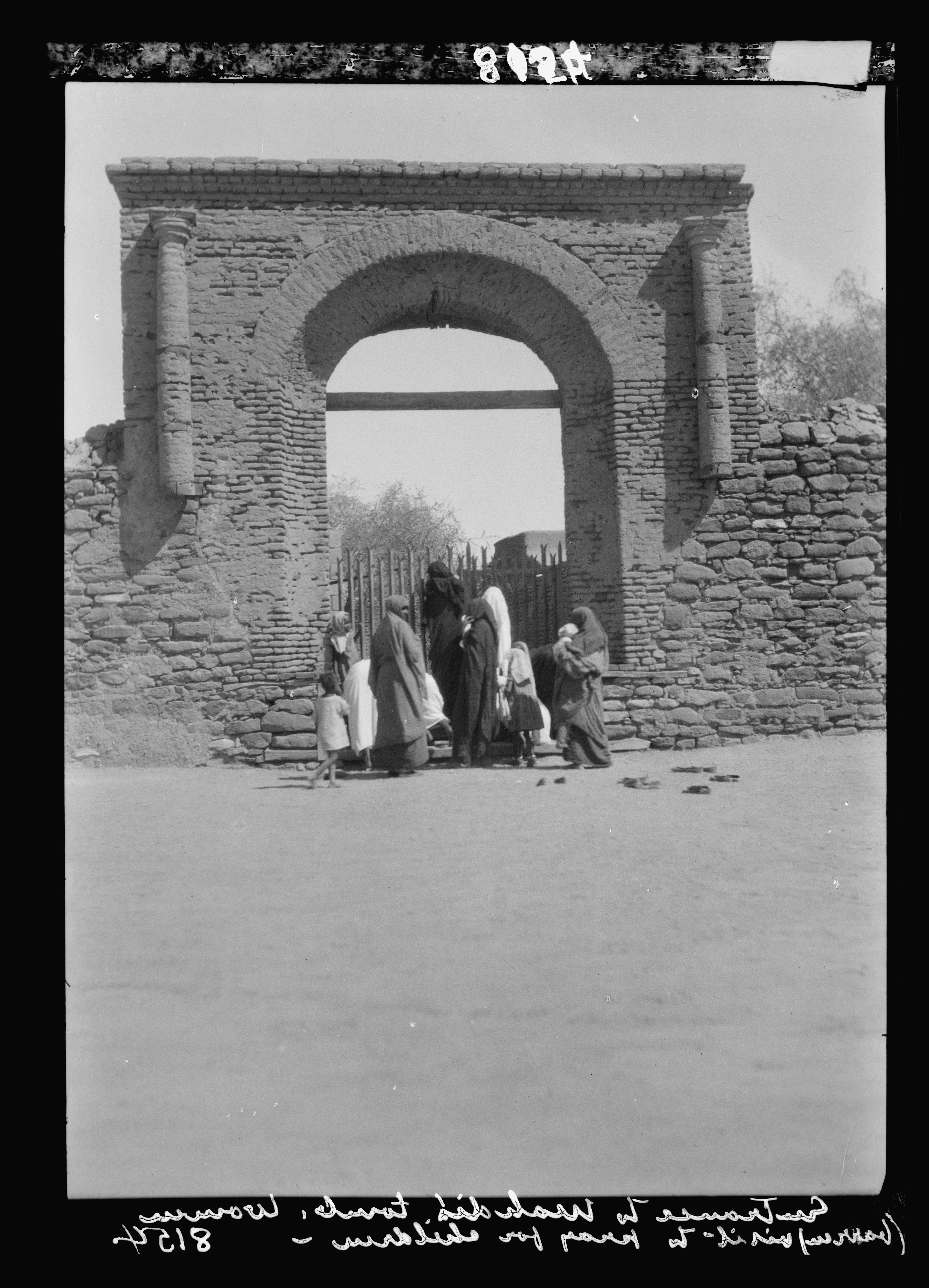 Title: Sudan. Omdurman. Entrance to Mahdi's tomb Abstract/medium: G. Eric and Edith Matson Photograph Collection Physical description: 1 negative